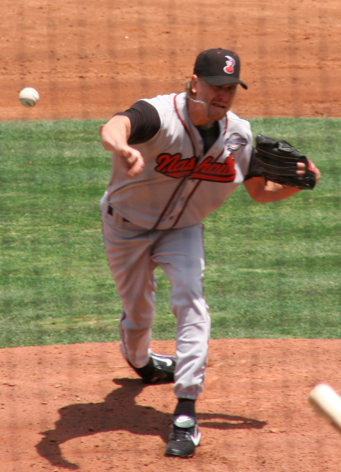 Jeff Weaver, a pitcher for the minor league Nashville Sounds, having just pitched the ball during a game at Cashman Field on May 11, 2008